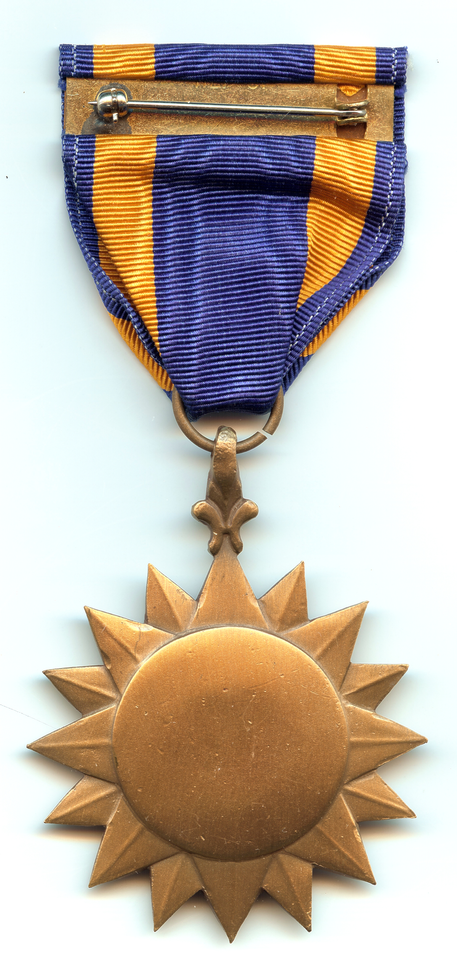 Air Medal - reverse side. From the American Heroes Museum collection. Recipient unknown.